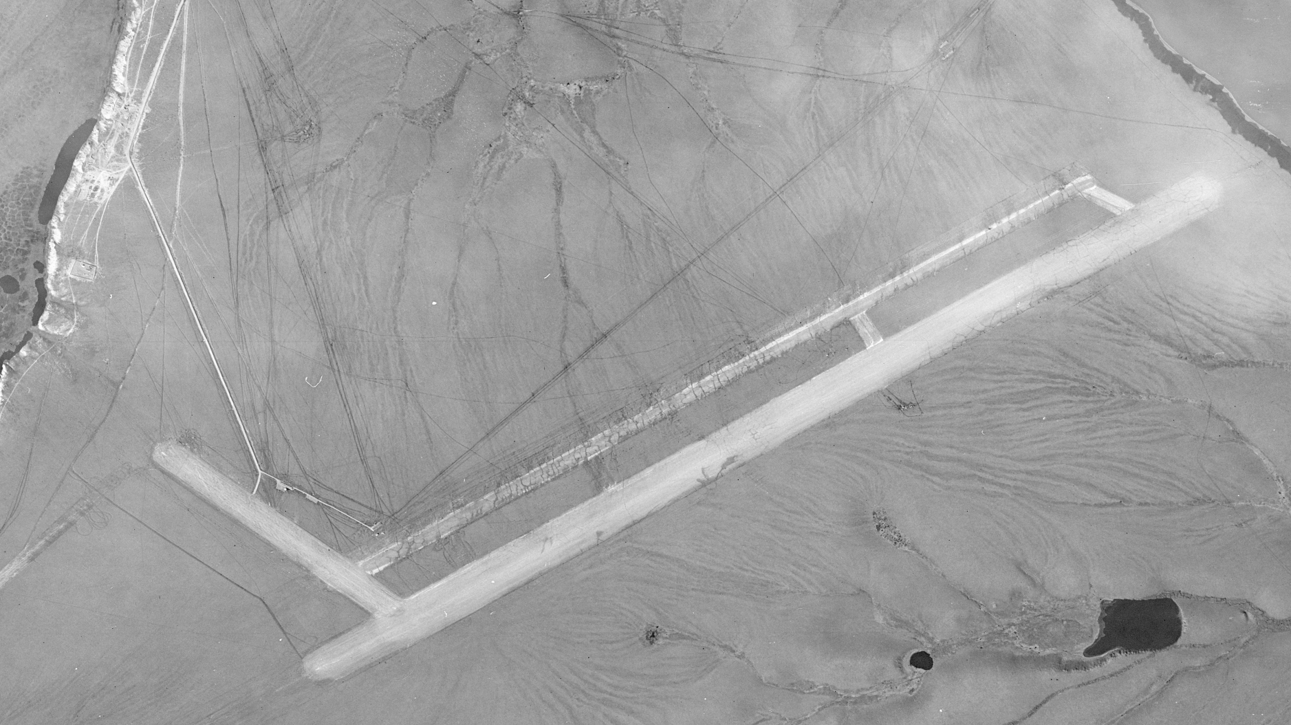 US Department of Defense KH-7 GAMBIT imagery from KH7-31 satellite, retrieved from US Geological Survey holdings: Entity ID:DZB00403100020H001001 Coordinates:69.375 , 161.278 Acquisition Date:17-AUG-66 Camera Resolution:2 to 4 feet